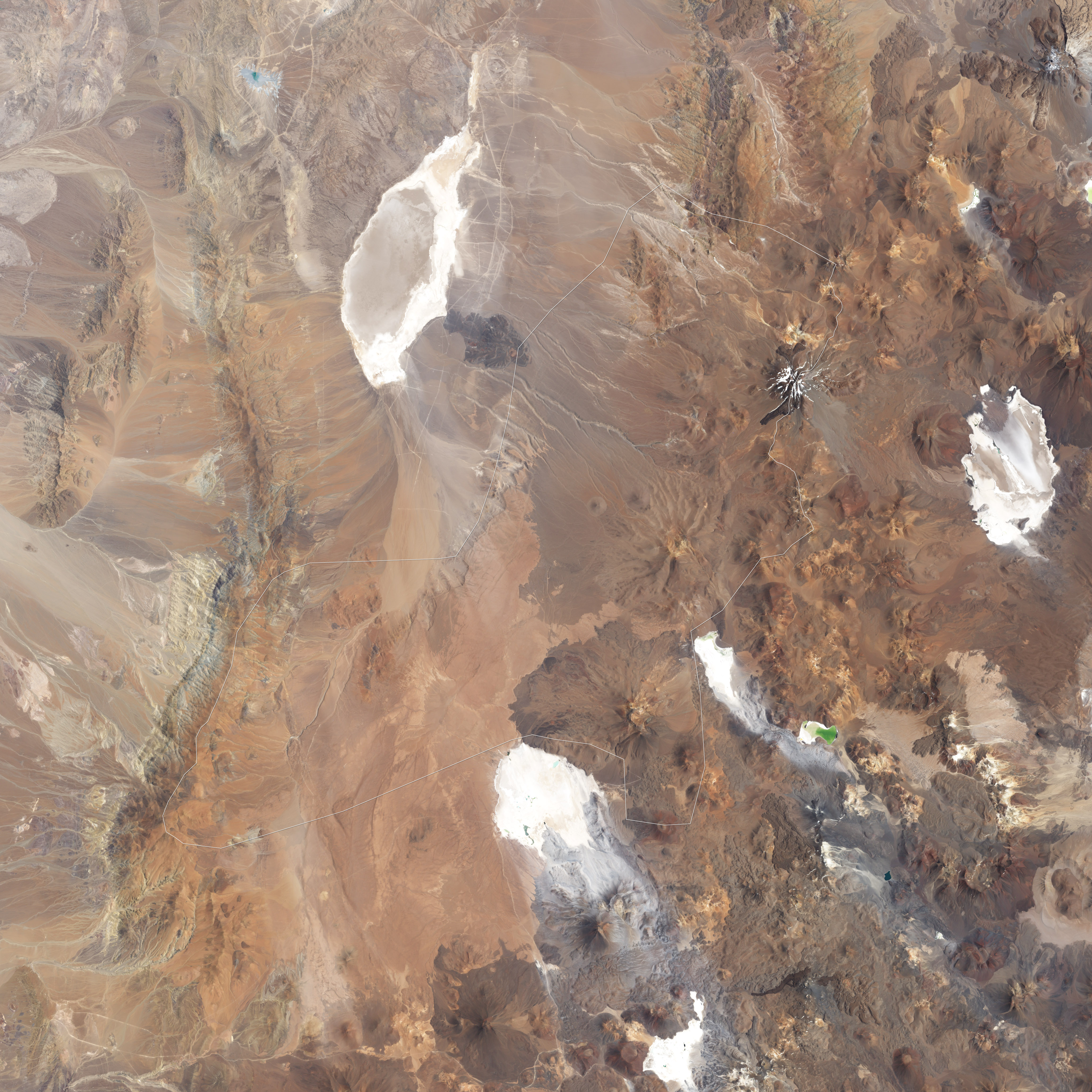 Natural-colour image of Parque Nacional Llullaillaco. Some snow and ice linger on the slopes of Llullaillaco, but little vegetation appears in this landscape. The clearest patch of green occurs in a lake east of the park. This landscape is a combination of mostly bare peaks and salt pans—the large, nearly white areas south and west of the volcano.